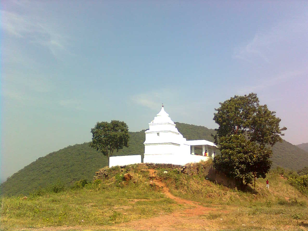 Road leading to temples, Gudilova, Anandapuram mandal, Visakhapatnam district